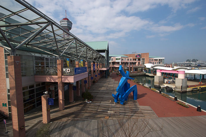 Inside of Bayside Place Hakata Futoh.